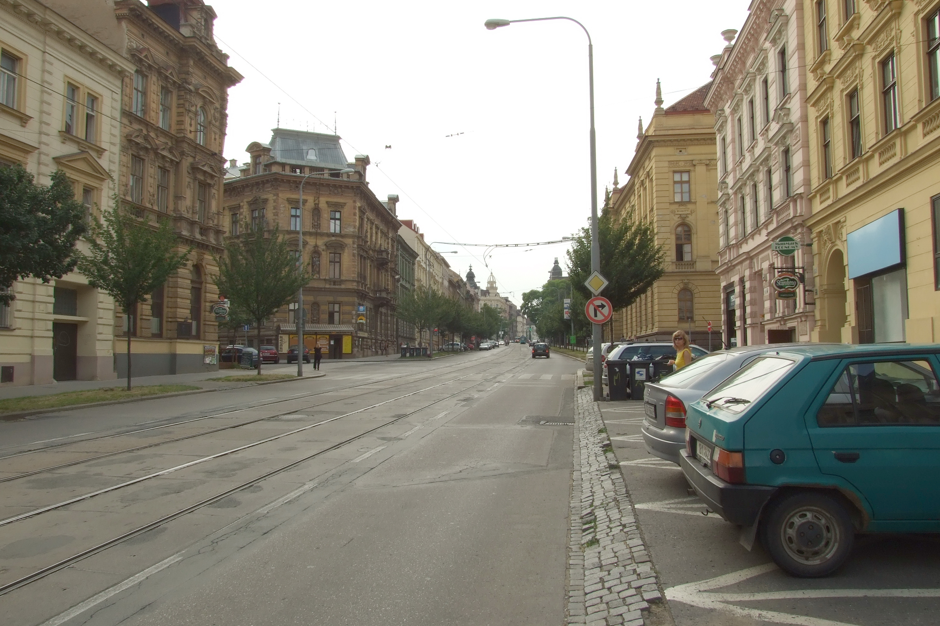 Brno-Veveří - Veveří street